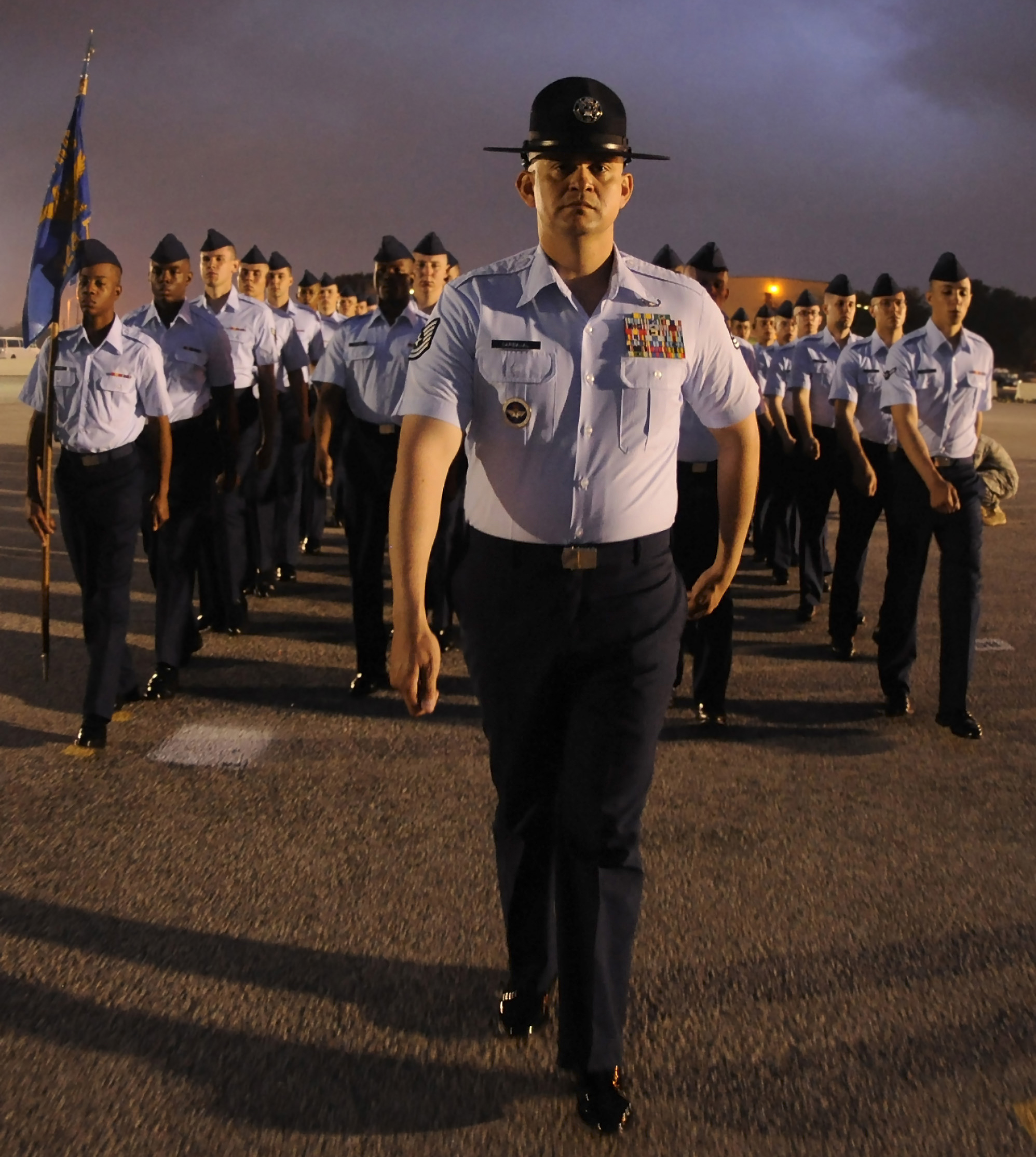 Technical Sergeant Carlos Carbajal marches his flight of basic trainees toward the parade ground at Lackland Air Force Base in San Antonio, Texas, April 24 for their graduation ceremony. Tech Sergeant Carbajal is a military training instructor assigned to the 324th Training Squadron.